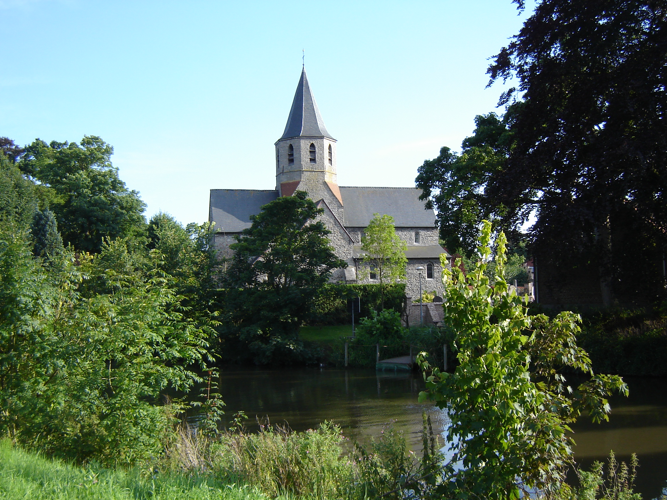 View on the village of Afsnee at the river Lys and the Church of Saint John Baptist. Afsnee, Gent, East Flanders, Belgium